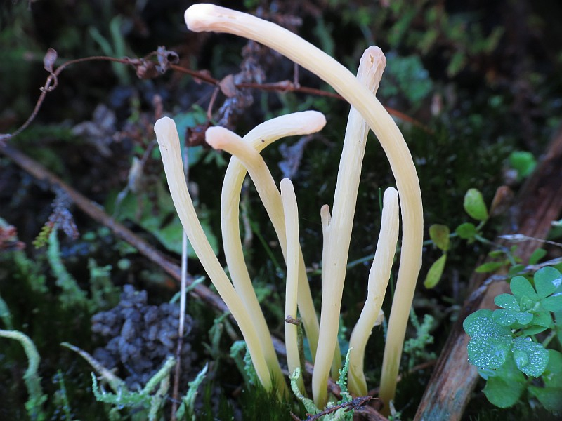 Clavaria argillacea (Clavariaceae), Kampina - Het Banisveld, the Netherlands